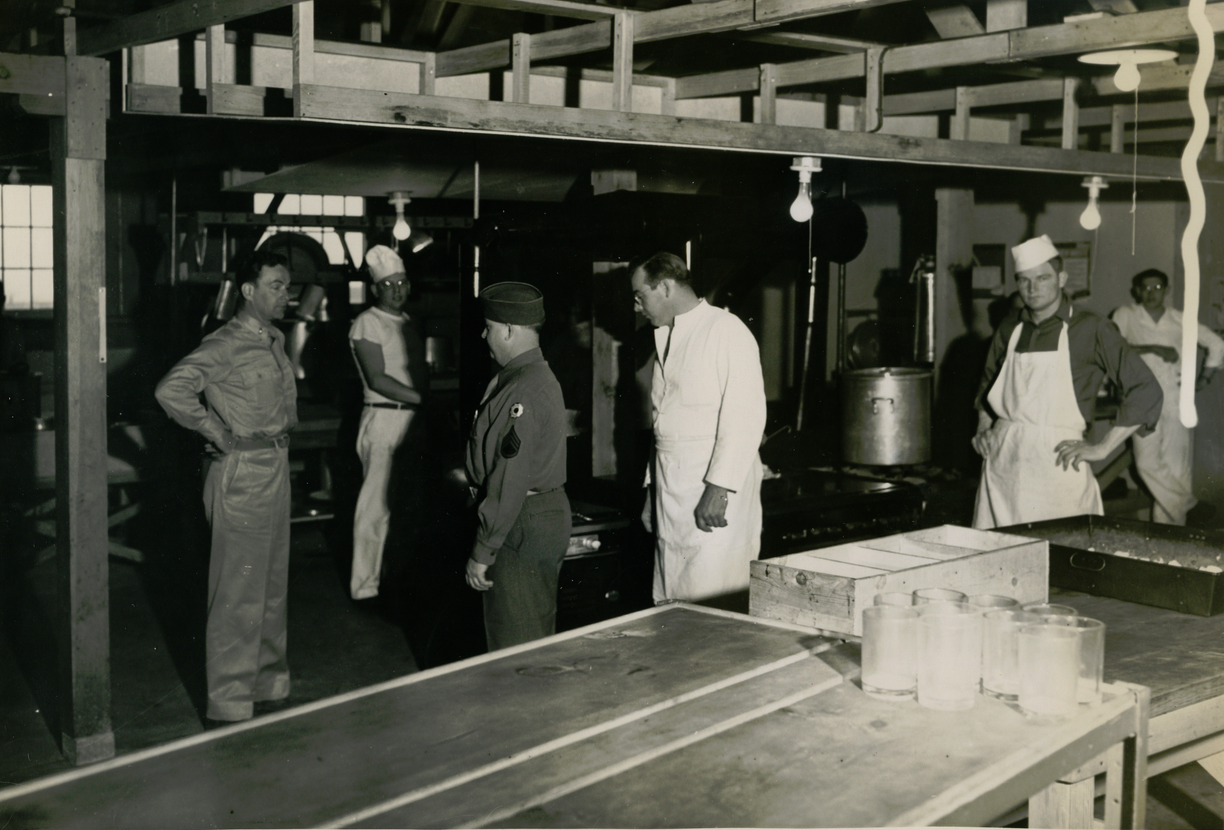 Civil Affairs Staging Area (CASA) officer and mess NCO.